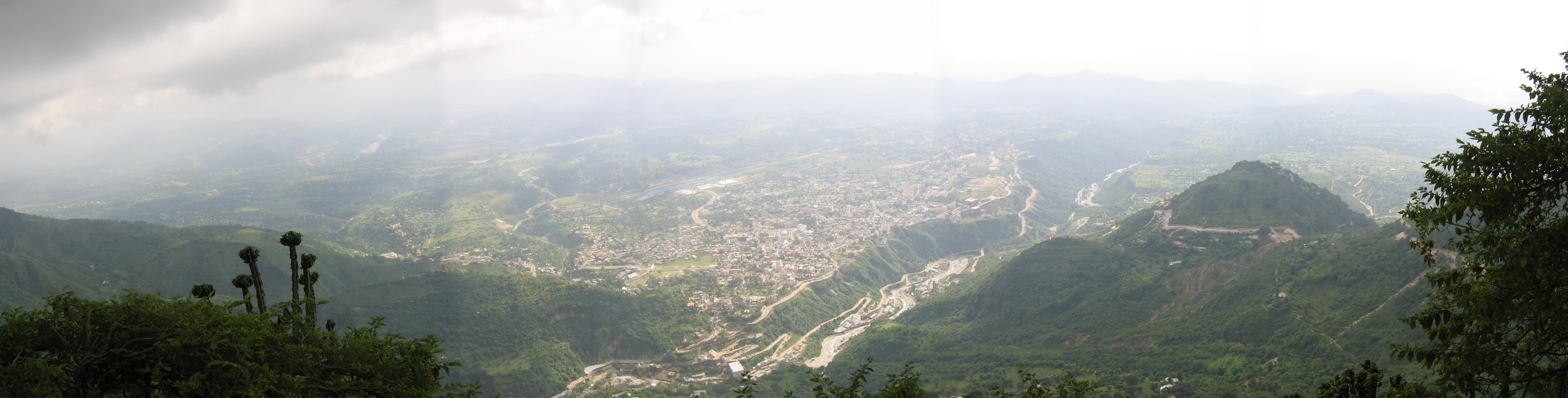 Katra - Vishnodevi